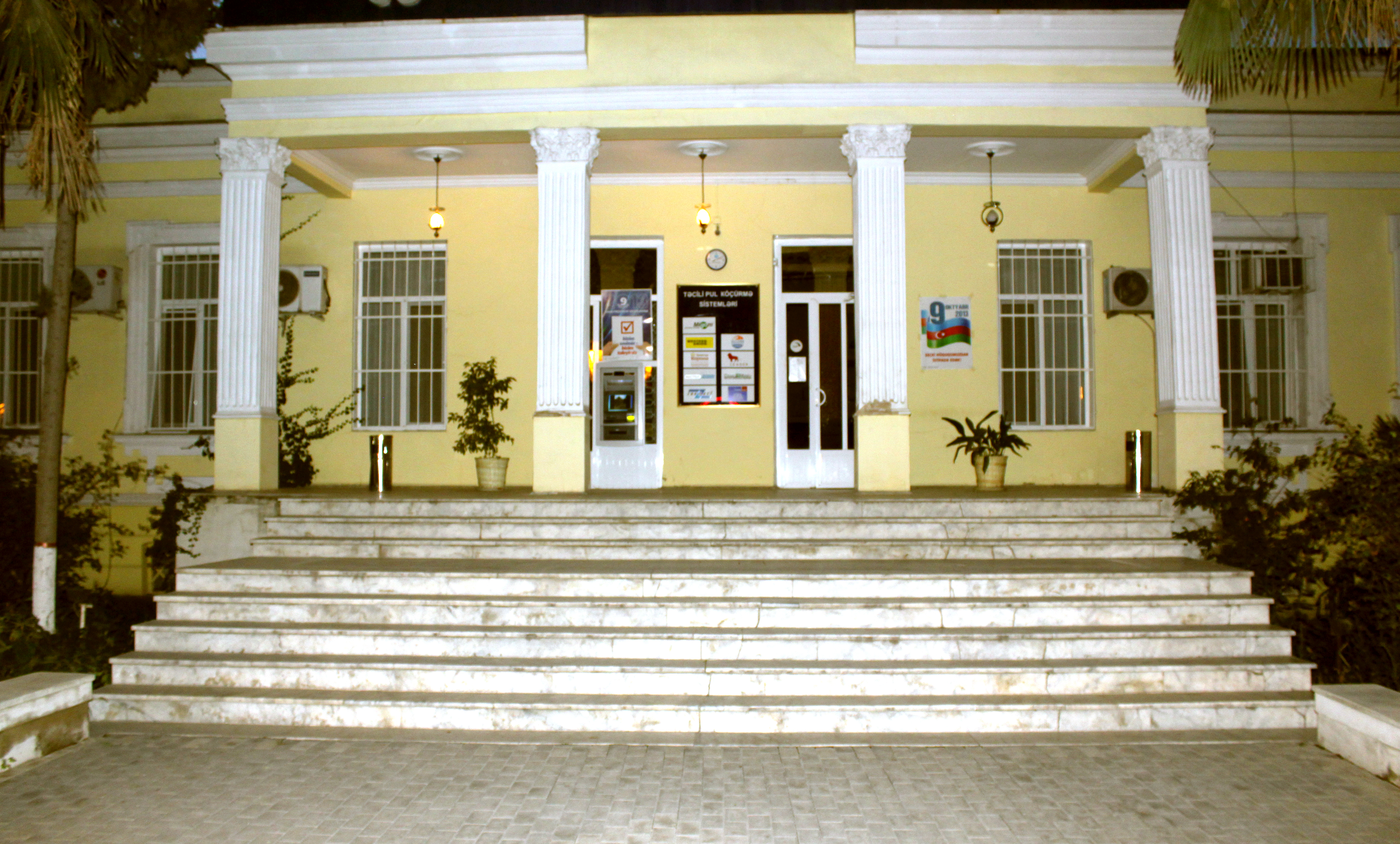 Gəncə divanxanası